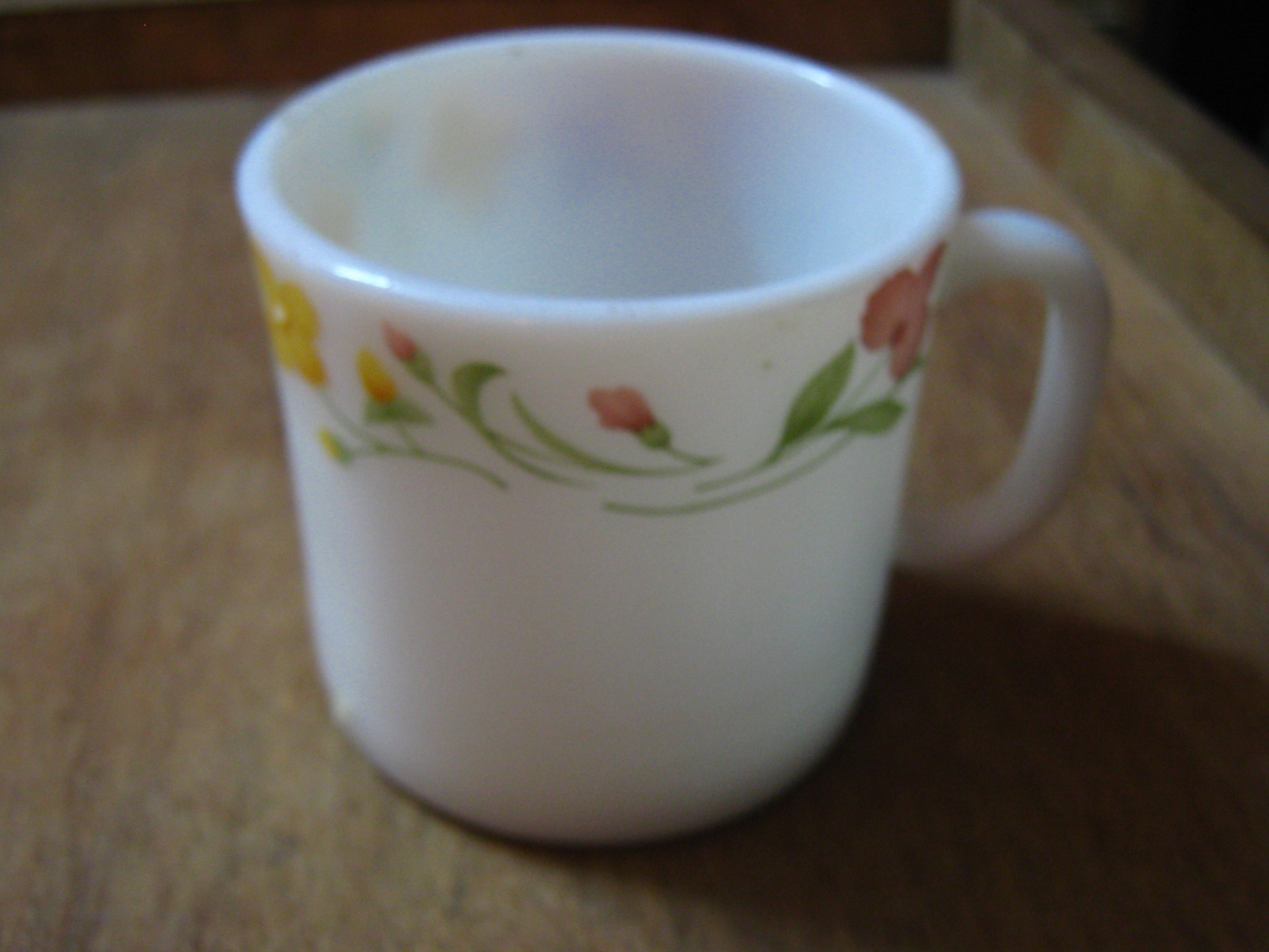 Utensil used in Indian Kitchen